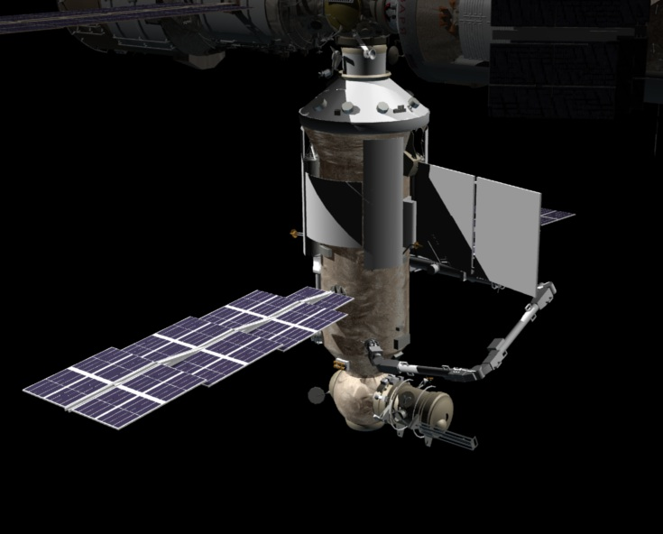 Screencap I edited (darkened remainder of station) from NASA 3D model.